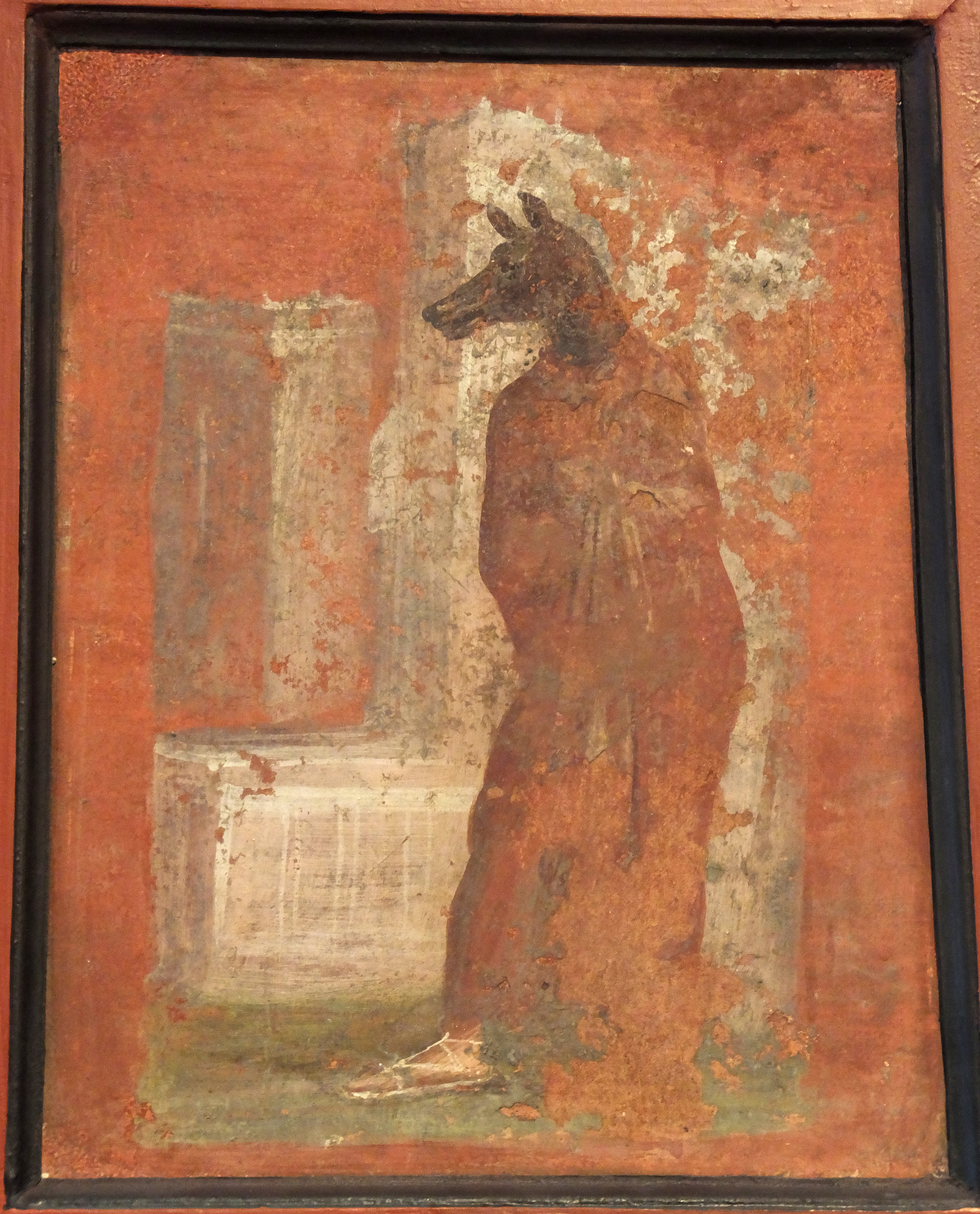 A priest with a mask of Anubis on a fresco originally from the Temple of Isis at Pompeii. Inventory Number 8920